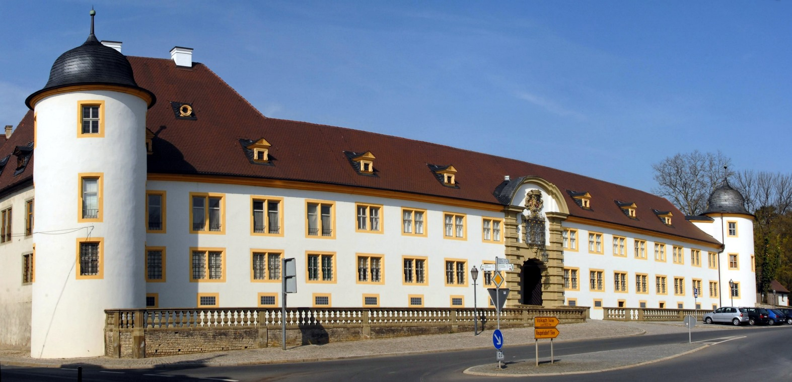 Wiesentheid: castle / East Side